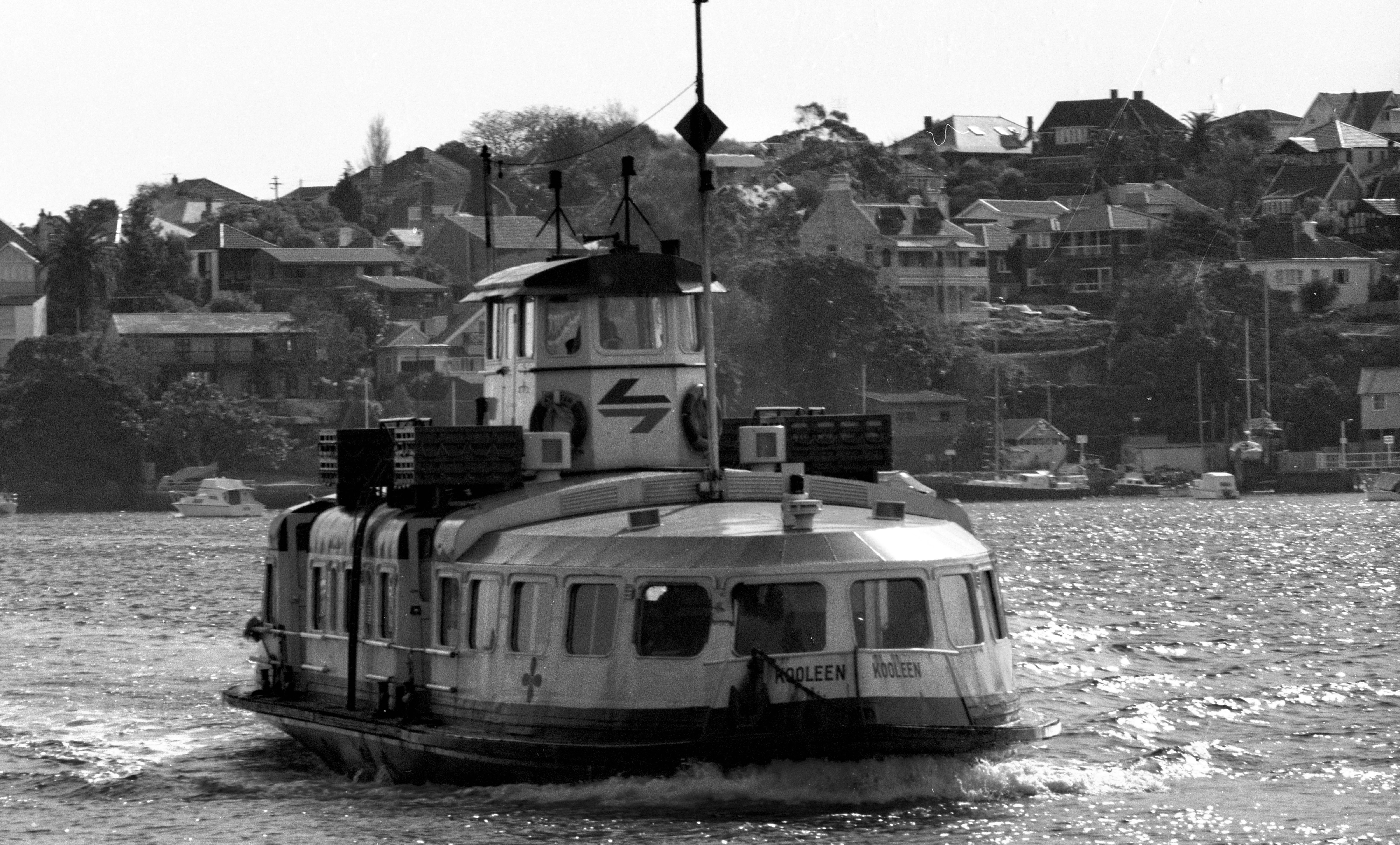 MV Kooleen 1983. Location inner harbour Sydney, exact location uncertain probably off Greenwich wharf